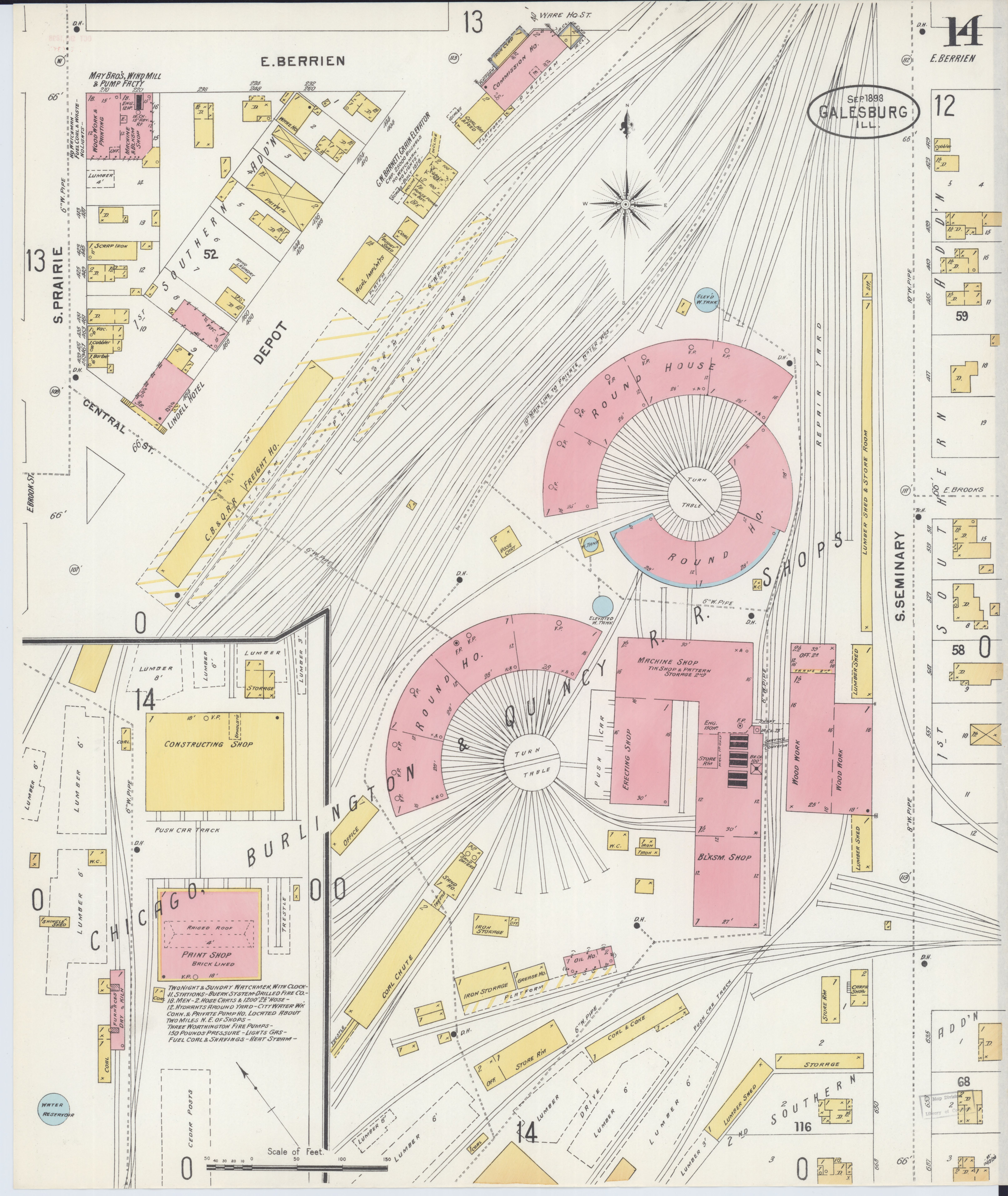 Sep 1898. 18 Sheet(s).